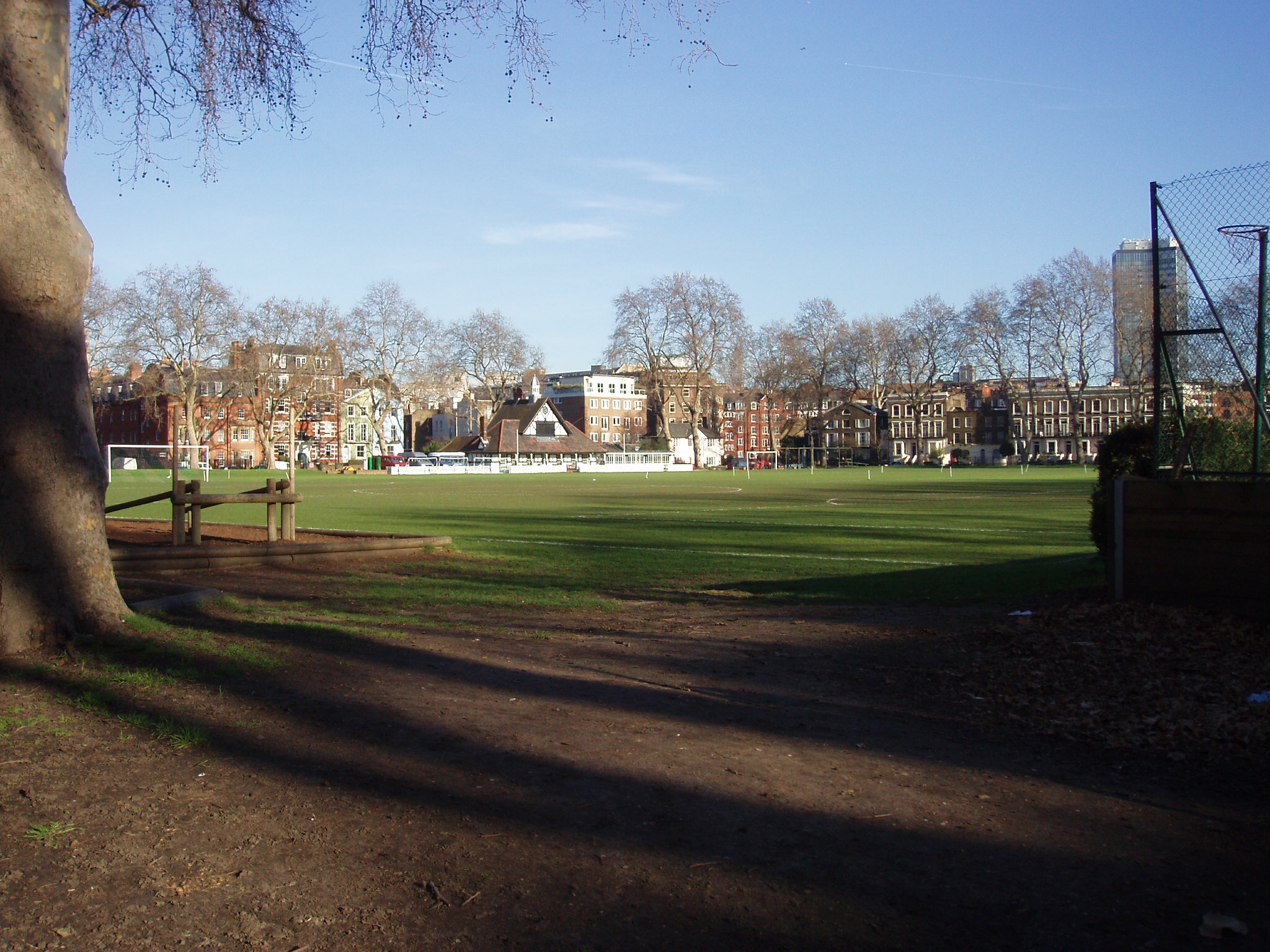 Vincent Square, the playing fields of Westminser School, viewed from the South East corner